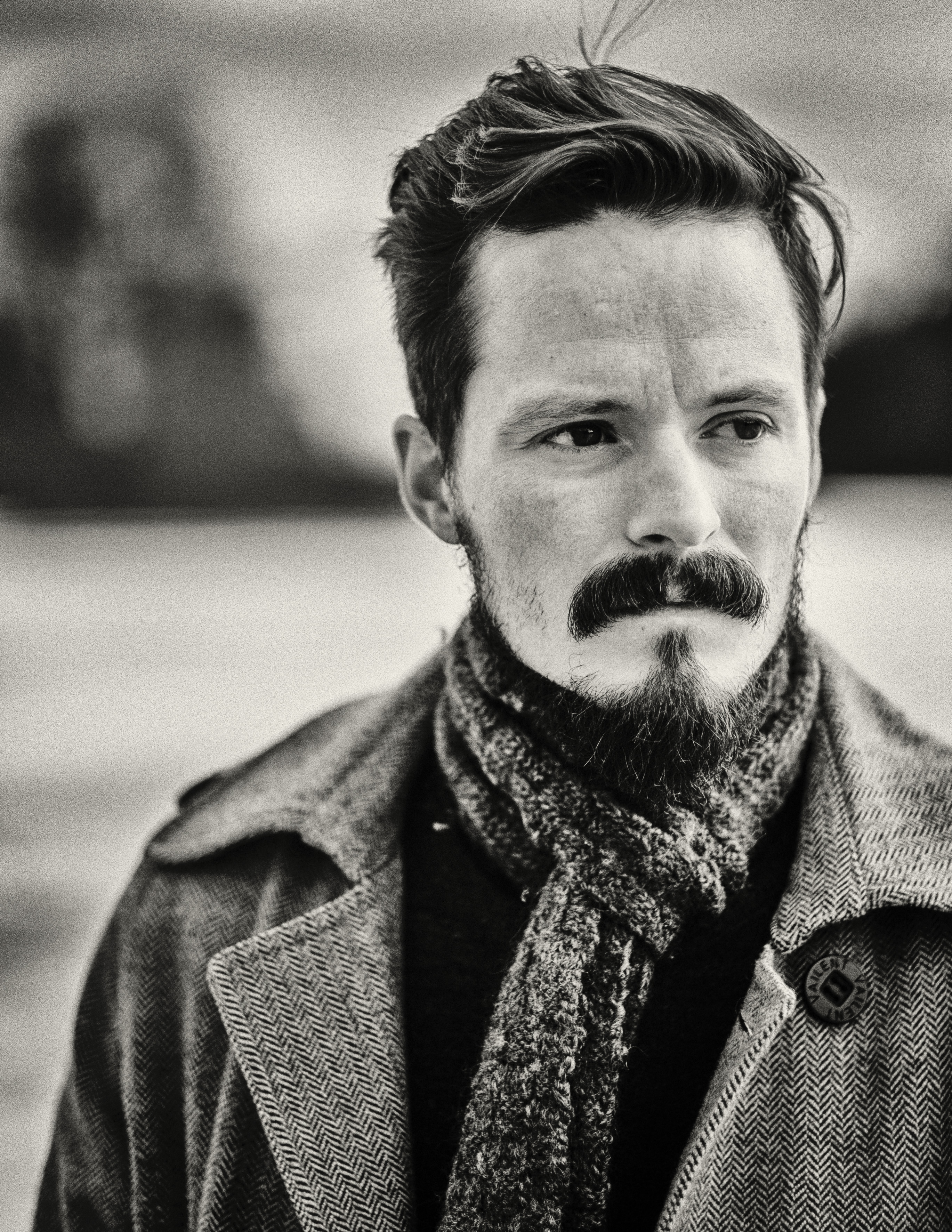 Composer Matthew Peterson